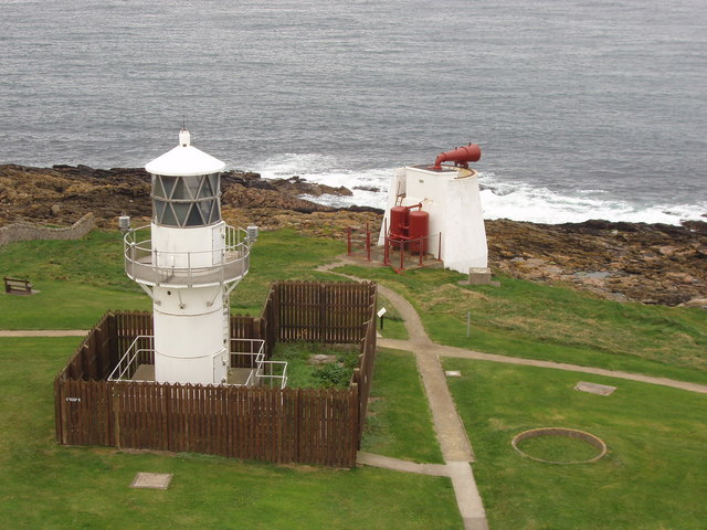 New lighthouse from old, Kinnaird Head View from old lighthouse which is part of the Museum of Scottish Lighthouses. The new lighthouse has a more powerful electric light and doesn't need to be as high as the former paraffin powered lamp in the old lighthouse.